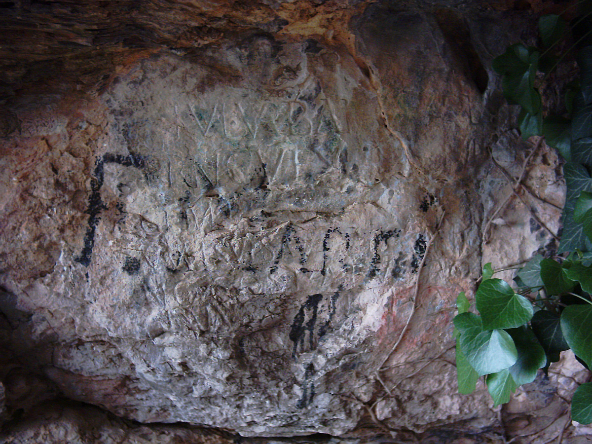 Roman inscription besides the cave "Cova de l'Aigua", Montgó Natural Parc, Denia, Province of Alicante, Spain